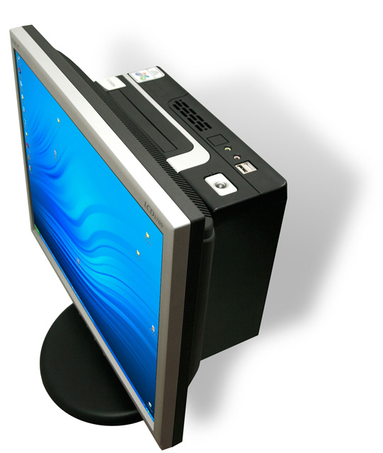 Arbyte Nettop